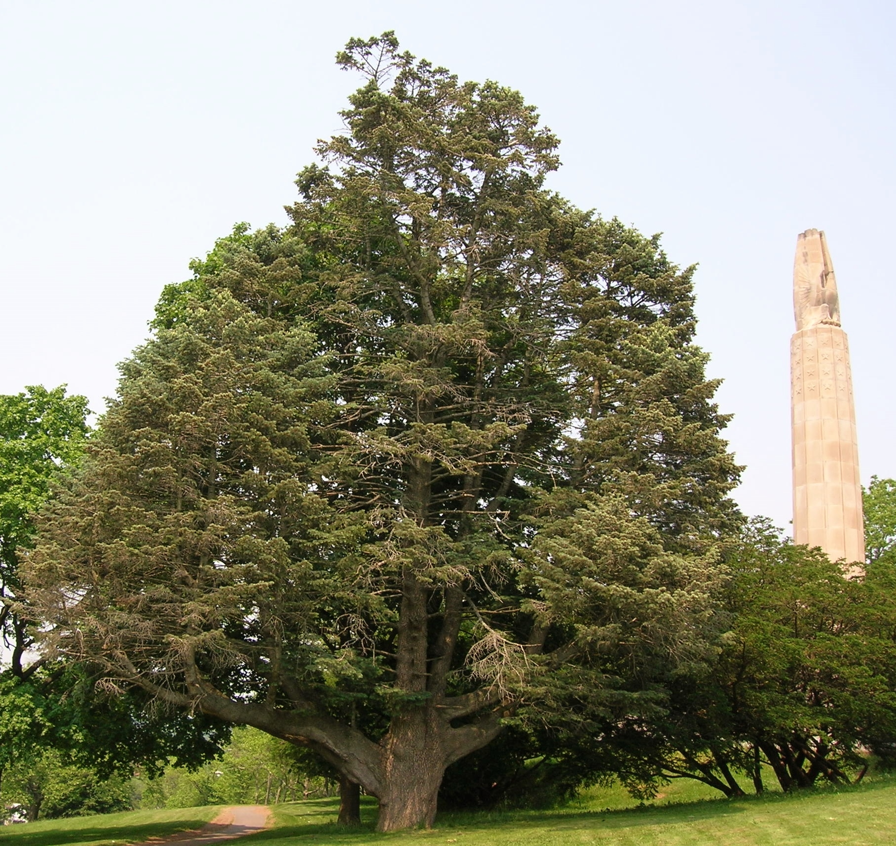 Photo of a white fir tree in Walnut Hill Park, New Britain, Connecticut. Photo taken June 9, 2011.